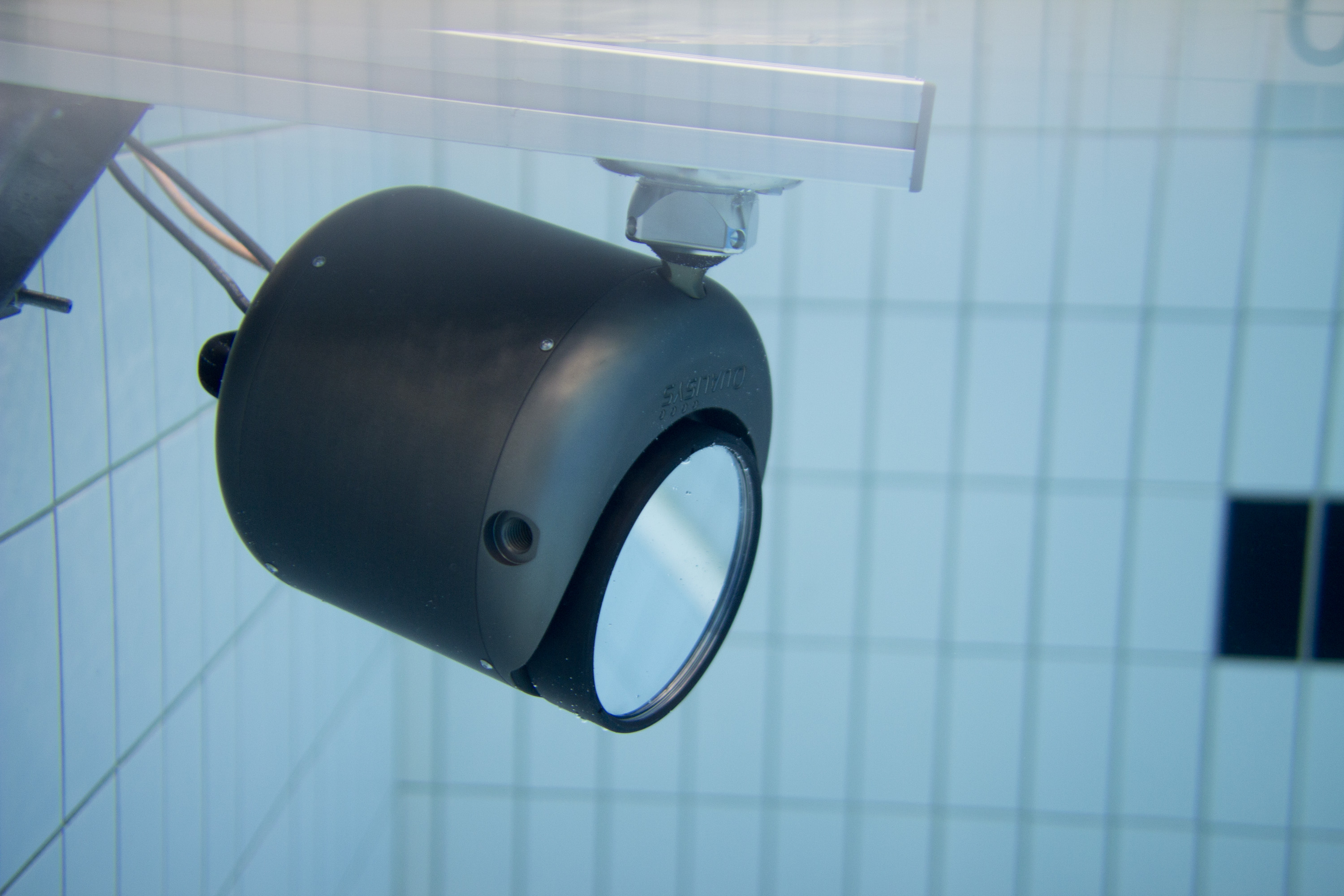 Qualisys Oqus Underwater camera for underwater motion capture.